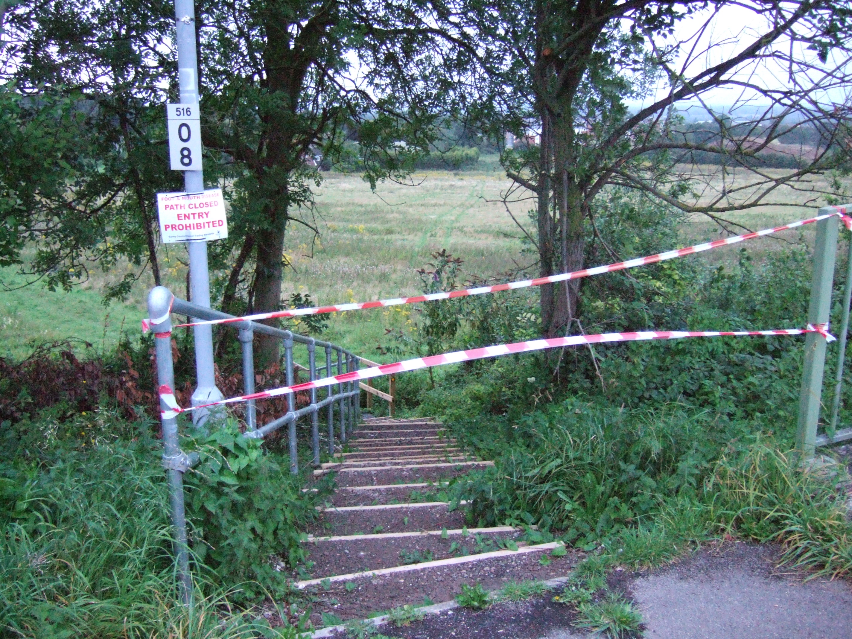 One of the many paths closed on the boundary of Onslow Village with part of Worplesdon civil parish following the outbreak of Foot and Mouth disease in August 2007